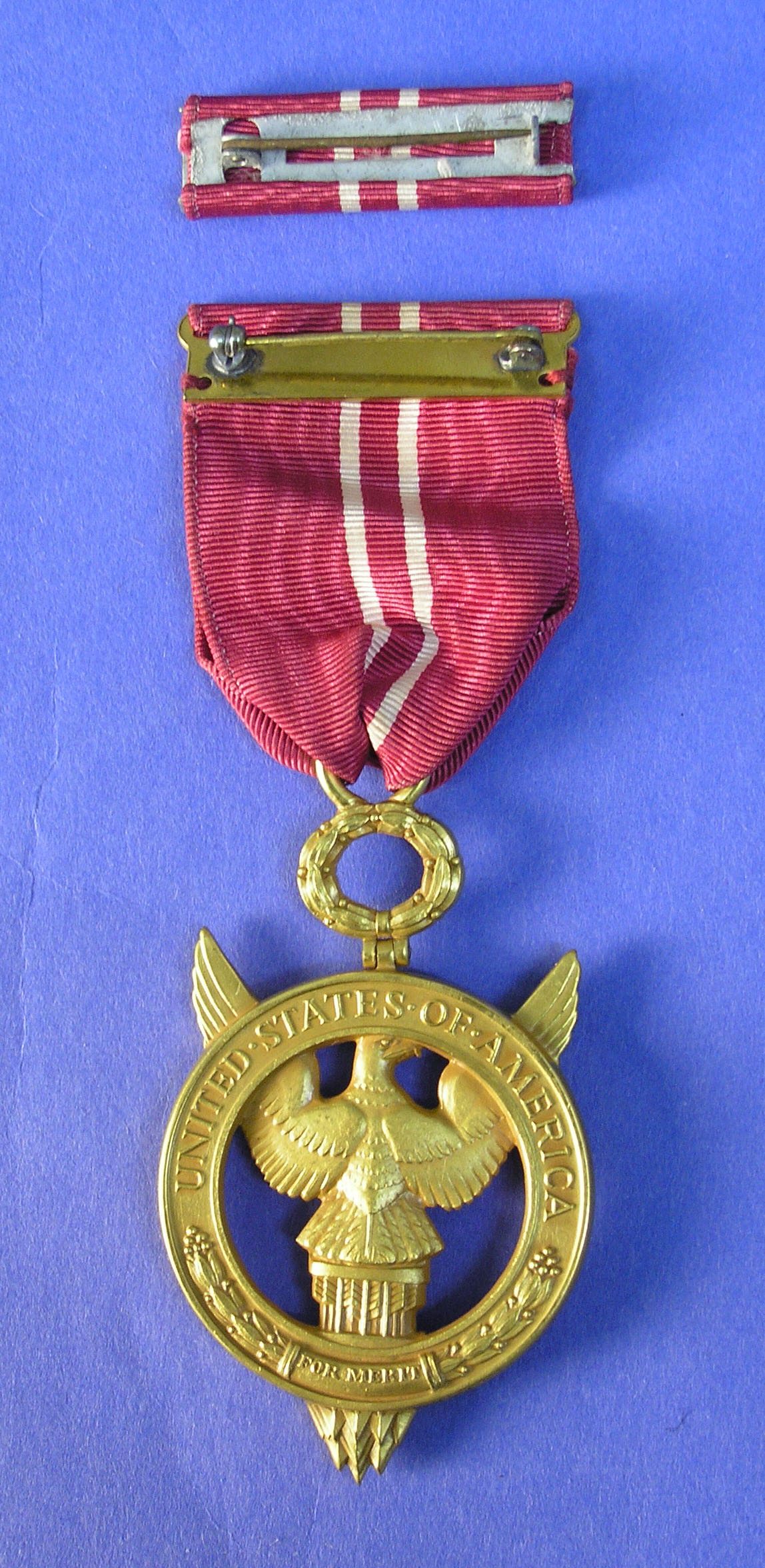 US Medal of Merit awarded to Methodist Missionary Reverend Archie Wharton Ellesmere Silvester, WW2 for his assistance in hiding 165 survivors of USS Helena for 8 days on Vella Lavella in the Solomon Islands gold and enamel medal on grosgrain ribbon with ribbon bar and rosette in original medal box markings- medal name marked in gilt on lid of medal box- MEDAL FOR MERIT